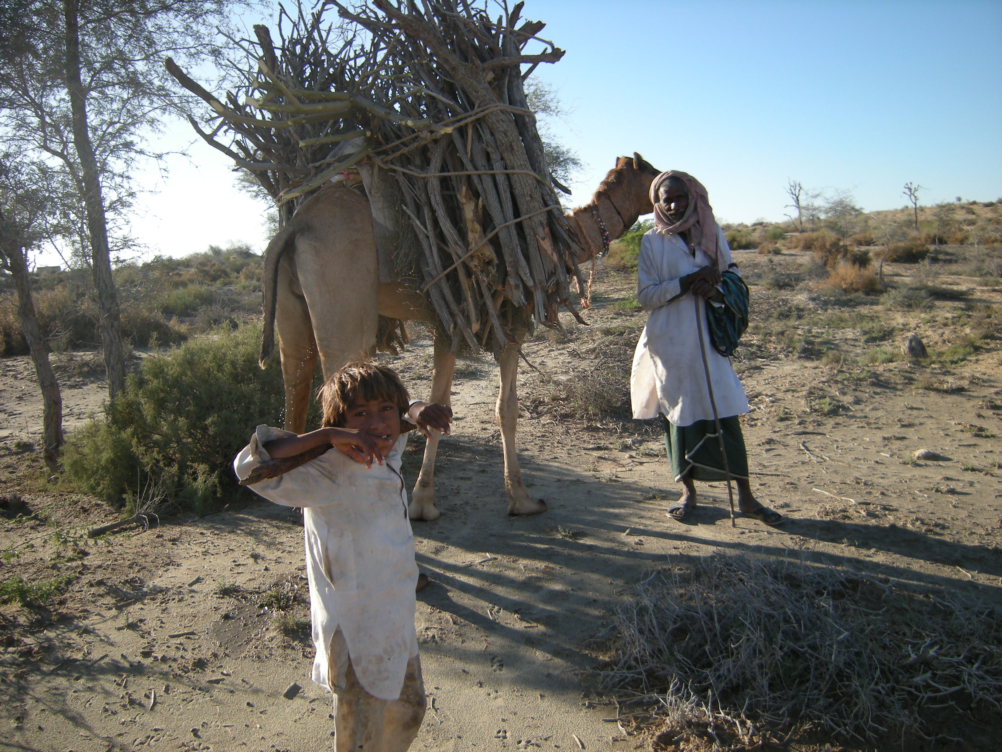 Man taking wood for Sale on Camel